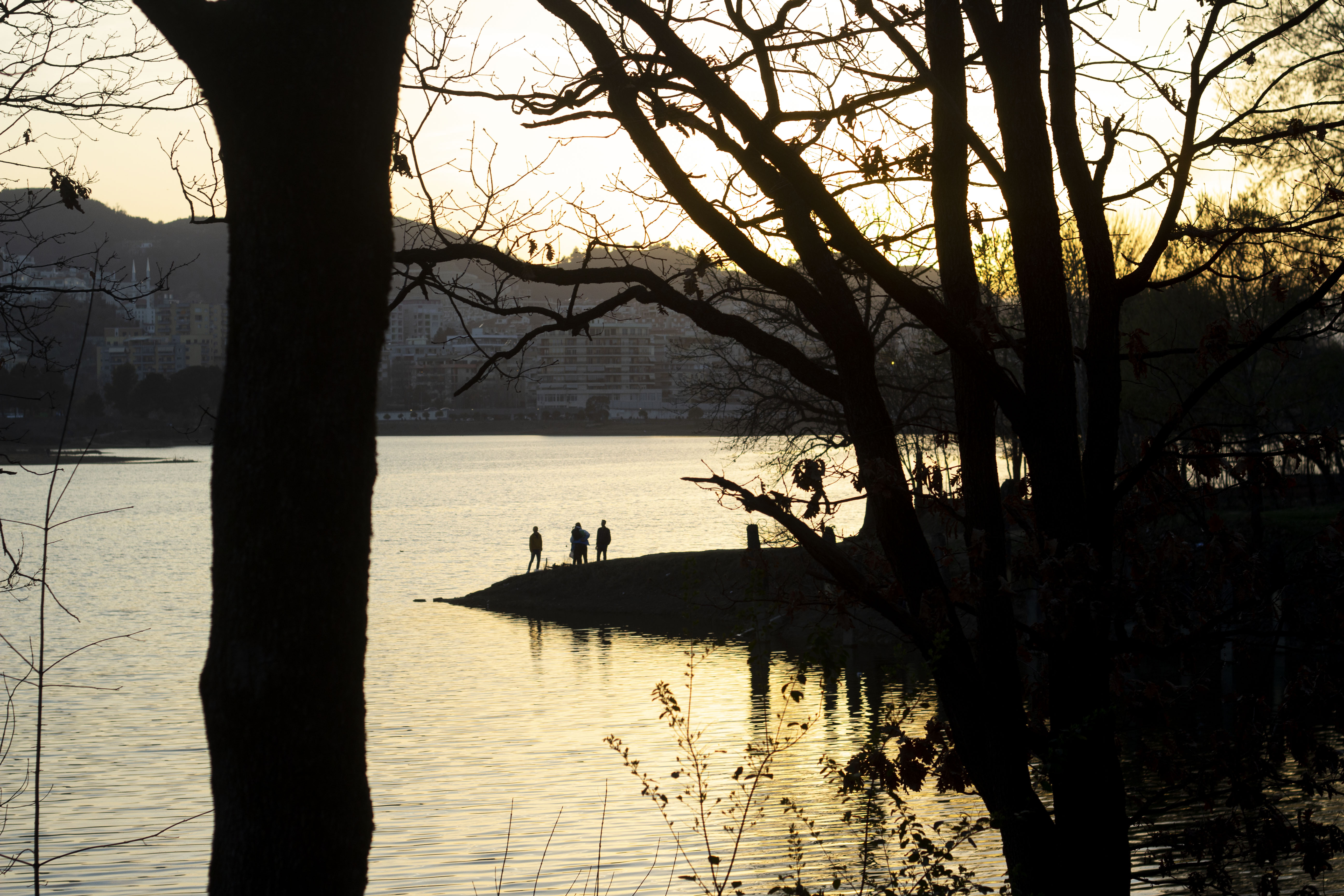 Sunset at the Grant Park of tirana